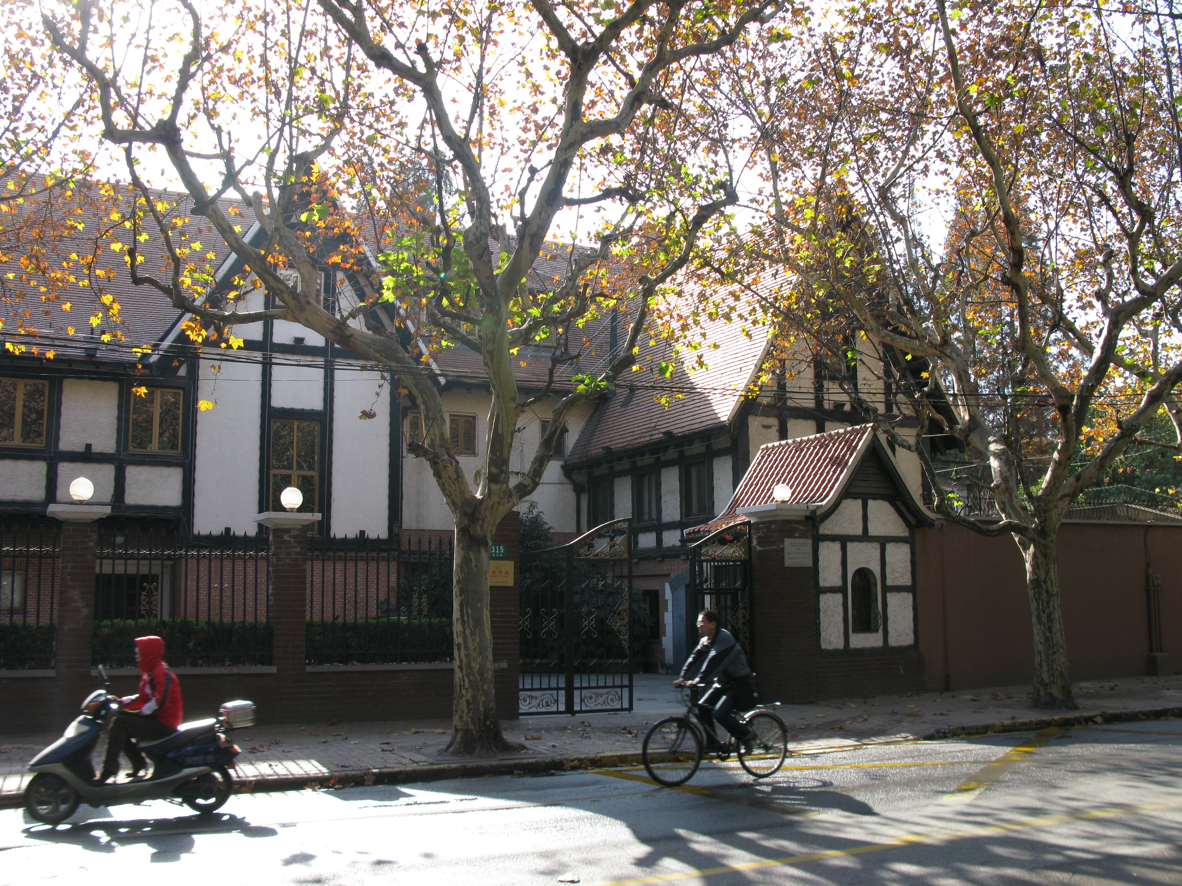 European-style house on Xinhua Road.